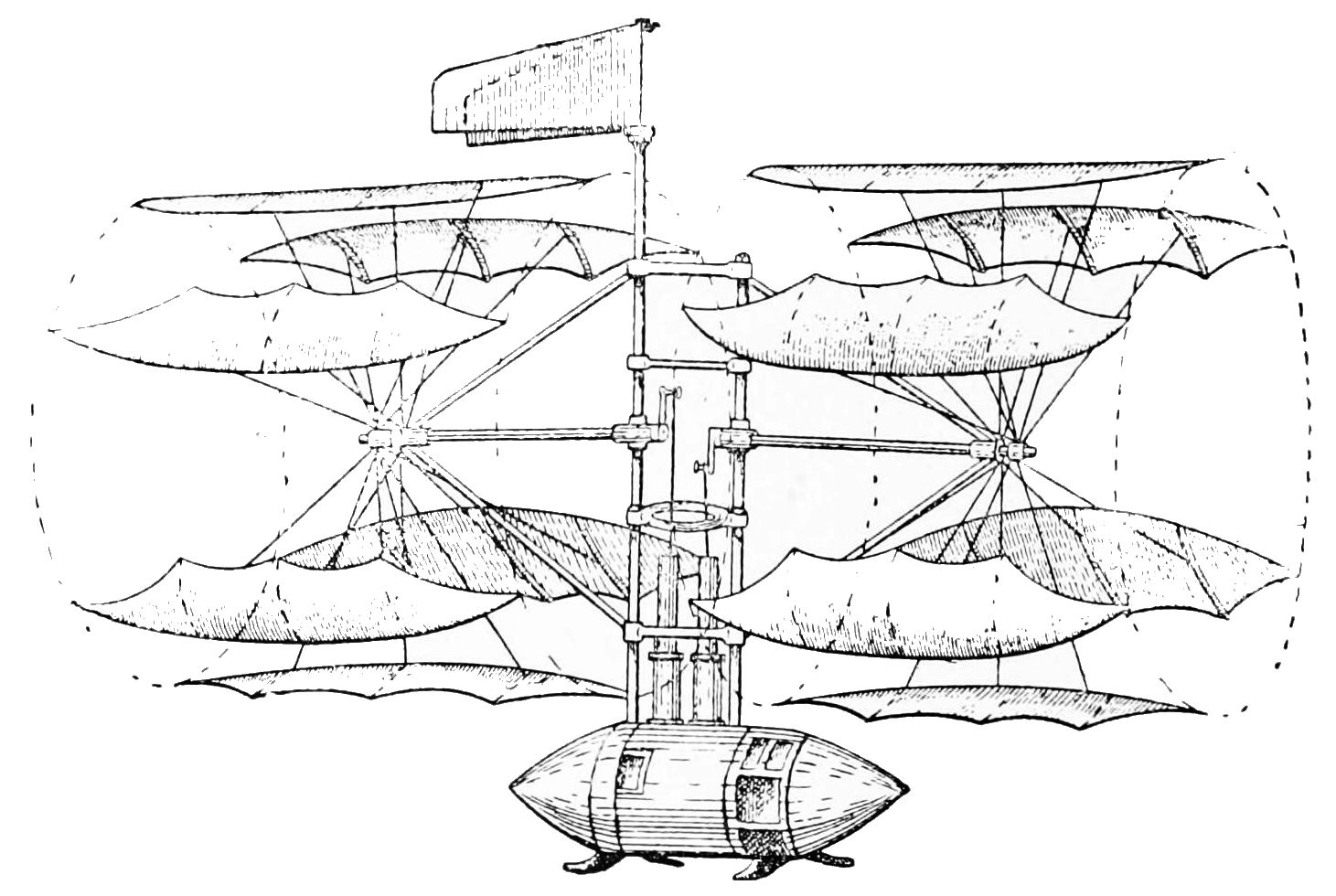 Wellner sail wheel flying machine for two persons